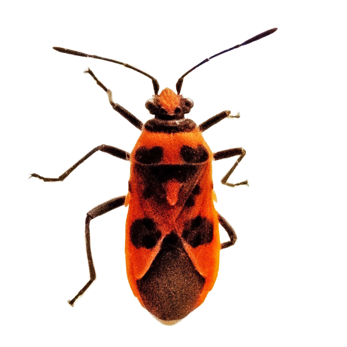 Cinnamon Bug (Corizus hyoscyami)